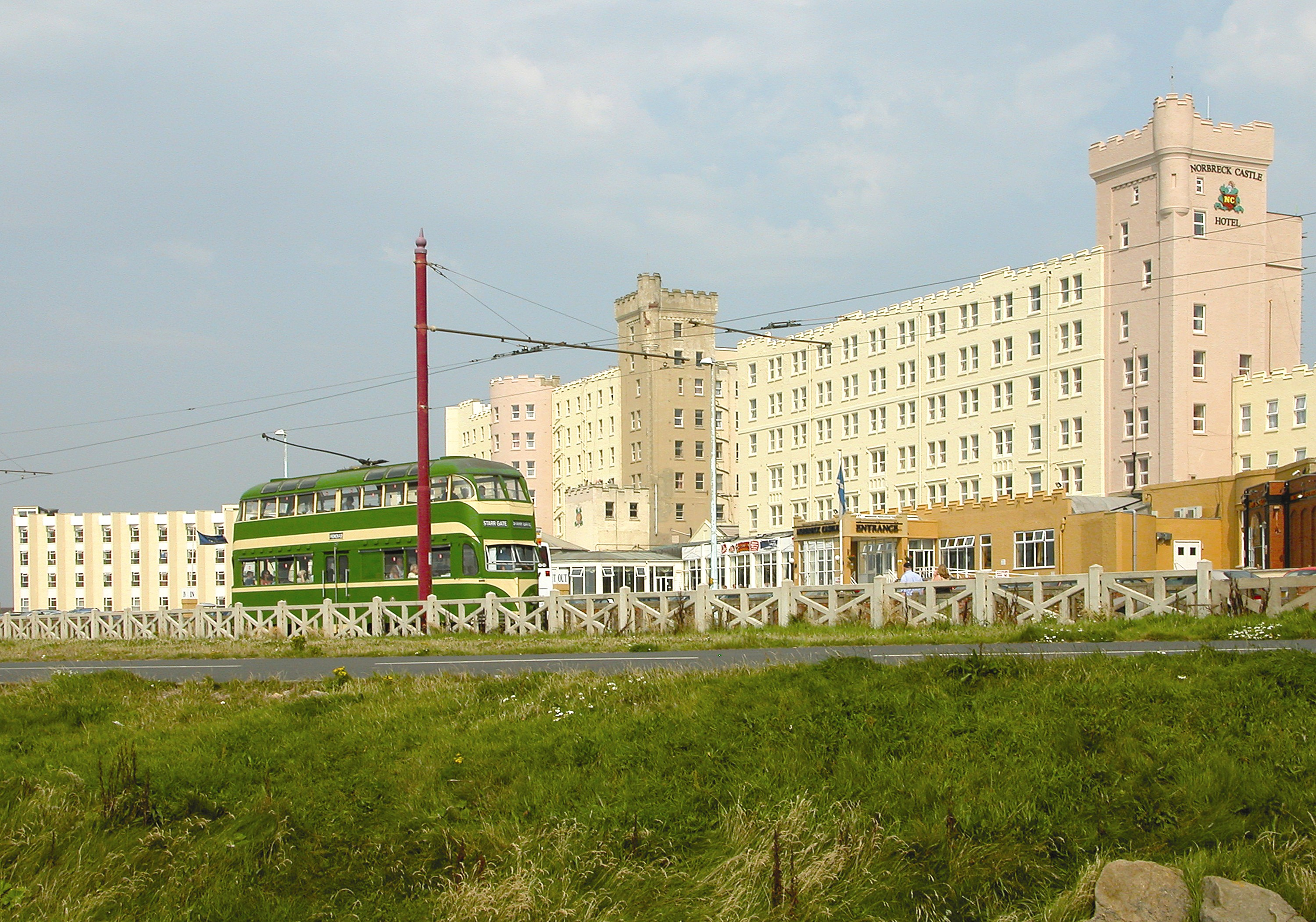 Norbreck Castle hotel with tram, photo